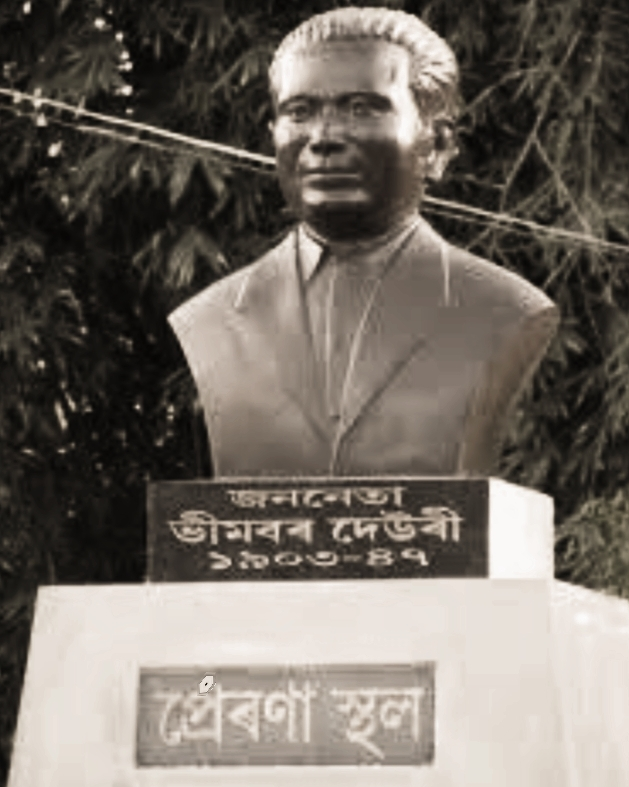 Bhimbor Deori Memorial statue